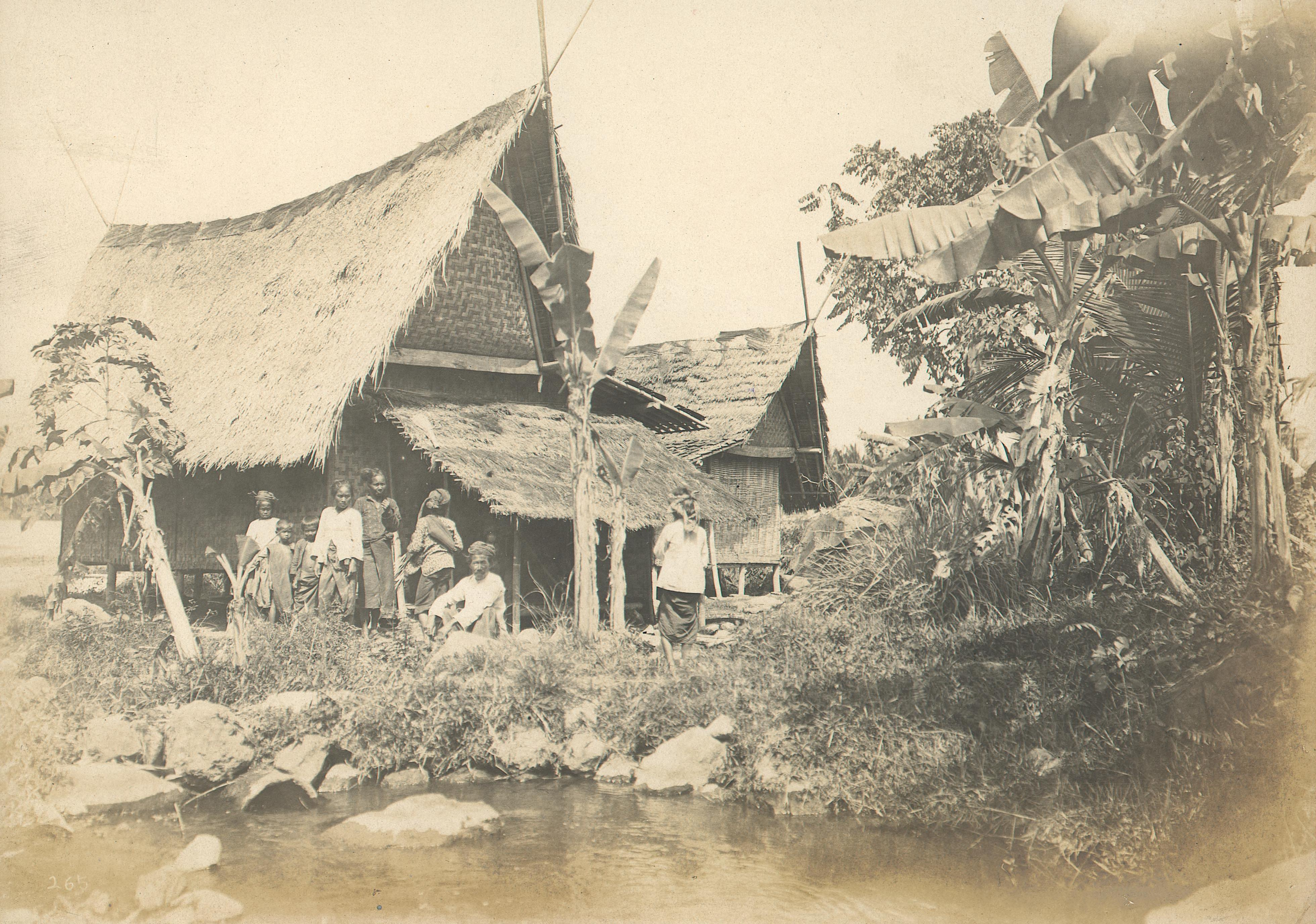 Moro house, Bacolod